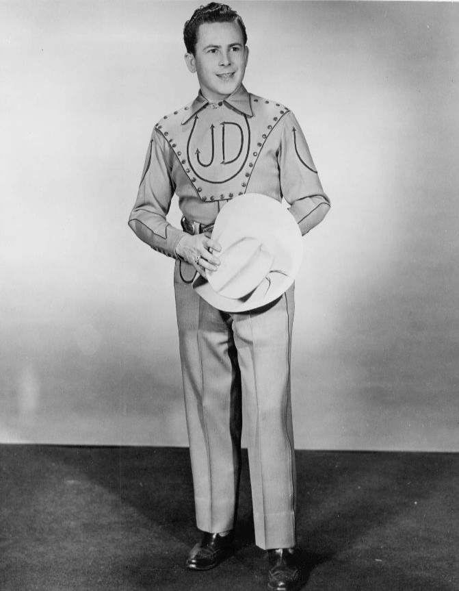 Photo of Little Jimmy Dickens.